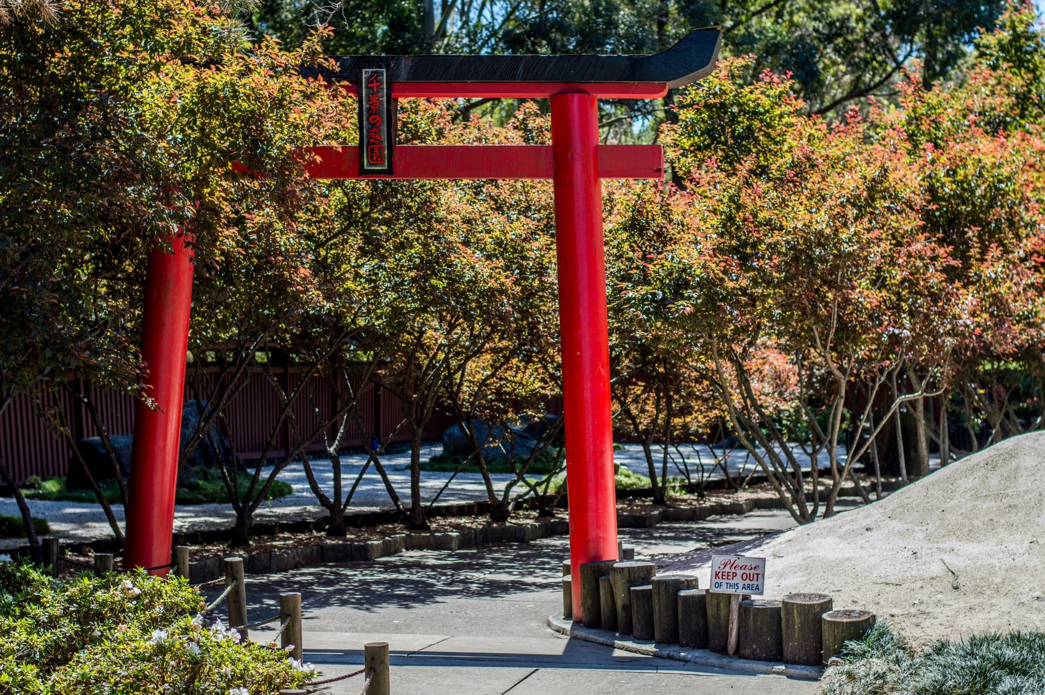 Entrance to the Zen garden.